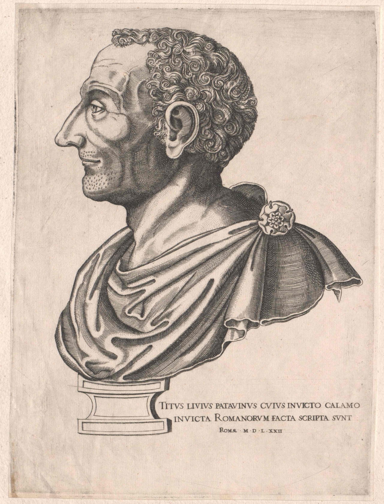 Livius, Titus (59 - 17 nach Chr.)